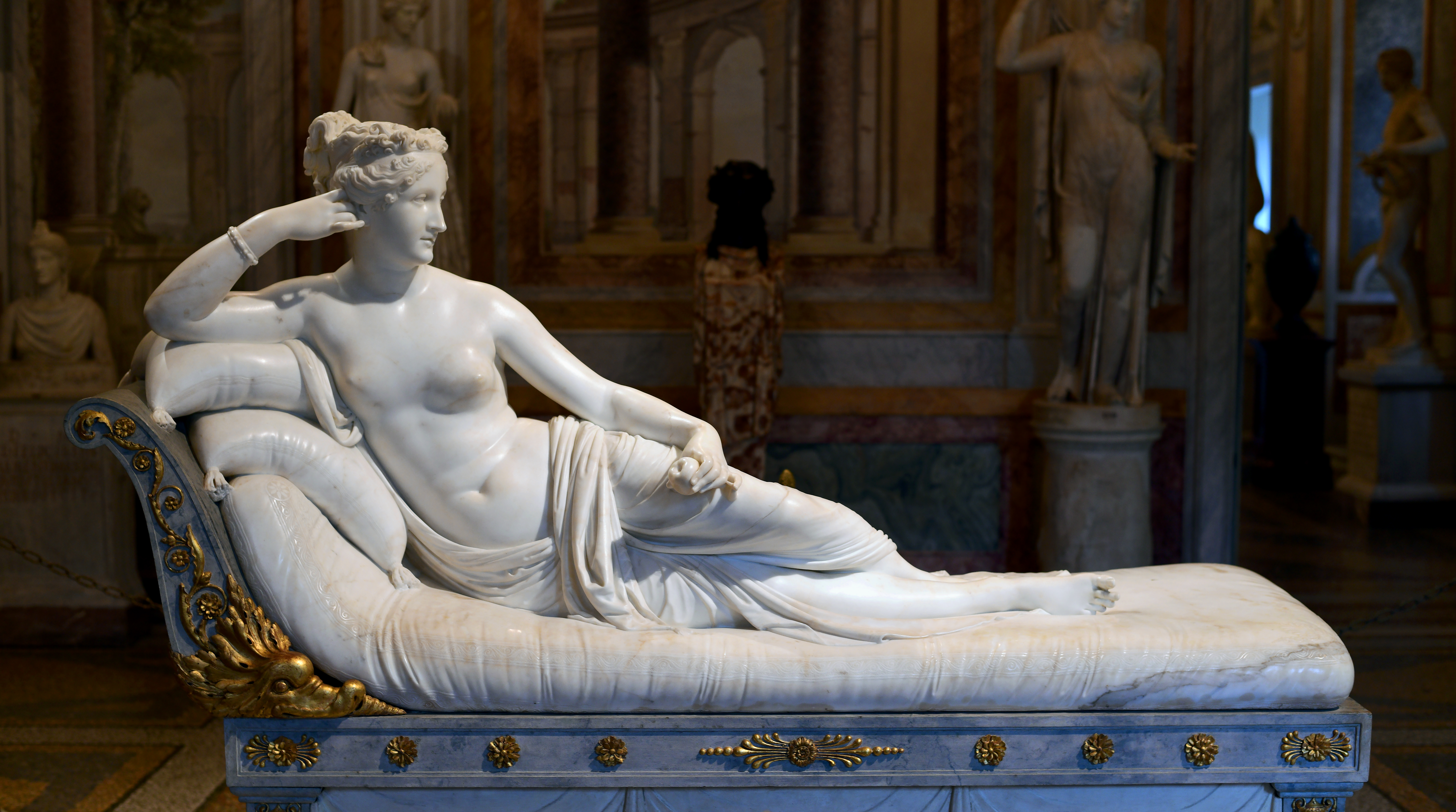 Paolina Borghese (Canova)